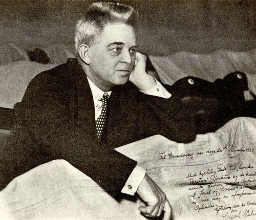 Carl Nielsen listening to the rehersal of Saul og David in Gothenburg